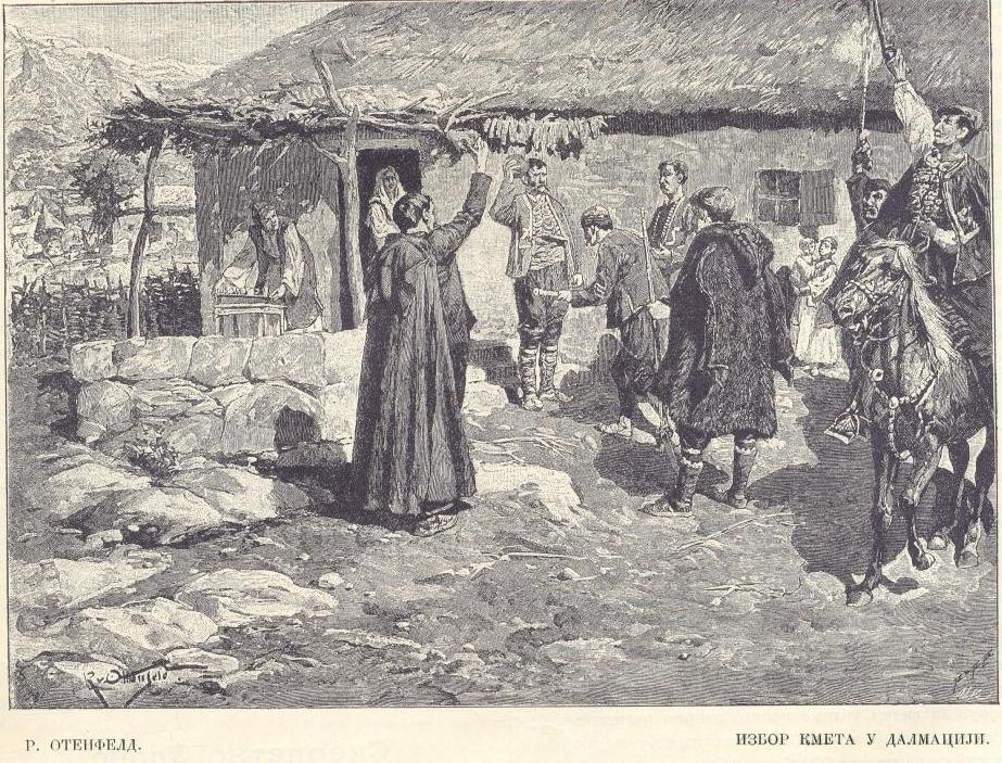 Избор кмета у Далмацији